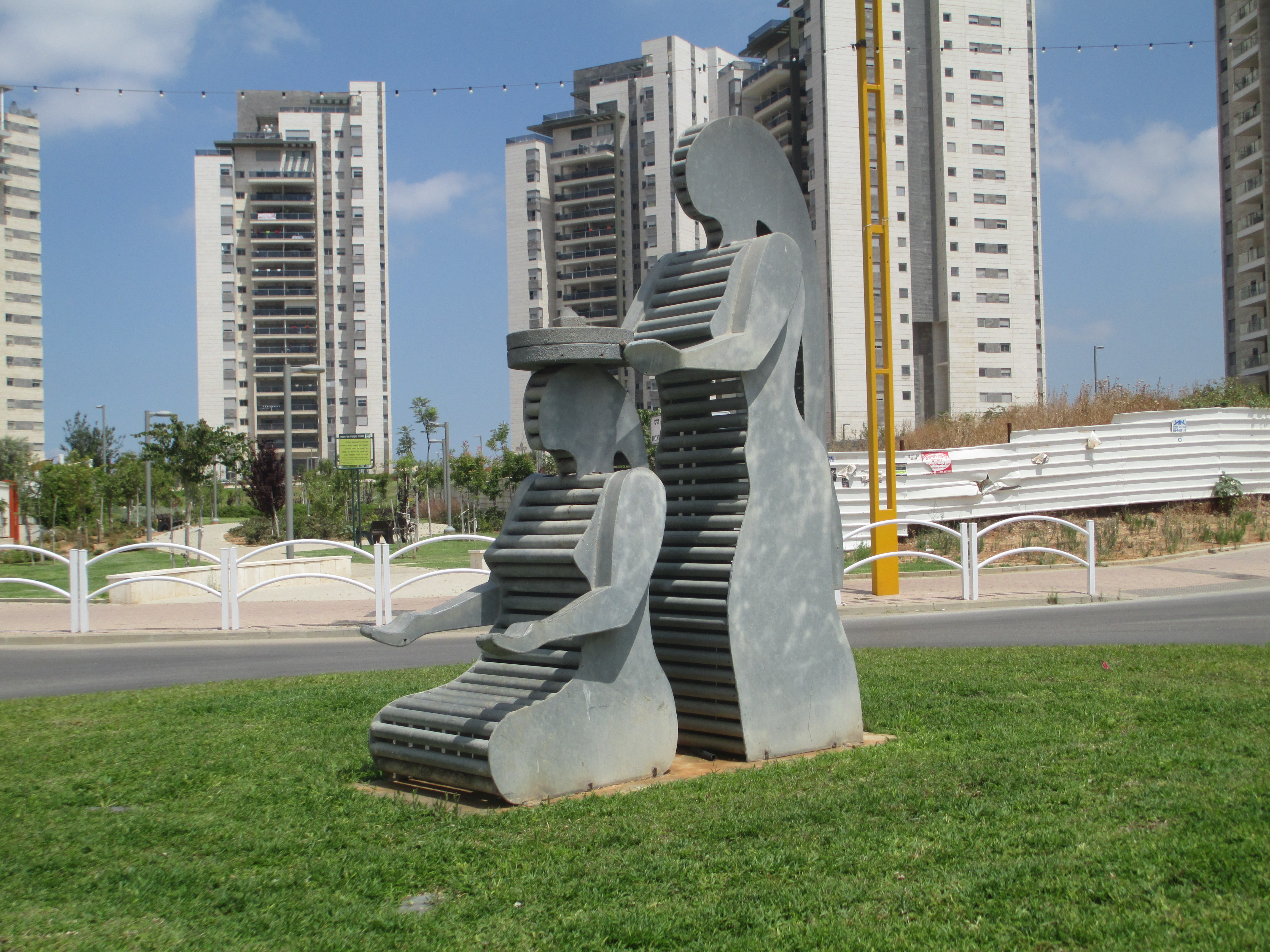 Prayer for rain in Ganei Tikva